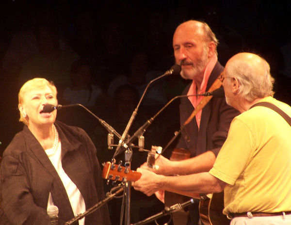 Peter, Paul and Mary onstage at the Westbury Music Fair, Westbury, NY on August 5, 2006. I'm very proud of this photograph. BassPlyr23 21:23, 24 August 2007 (UTC)